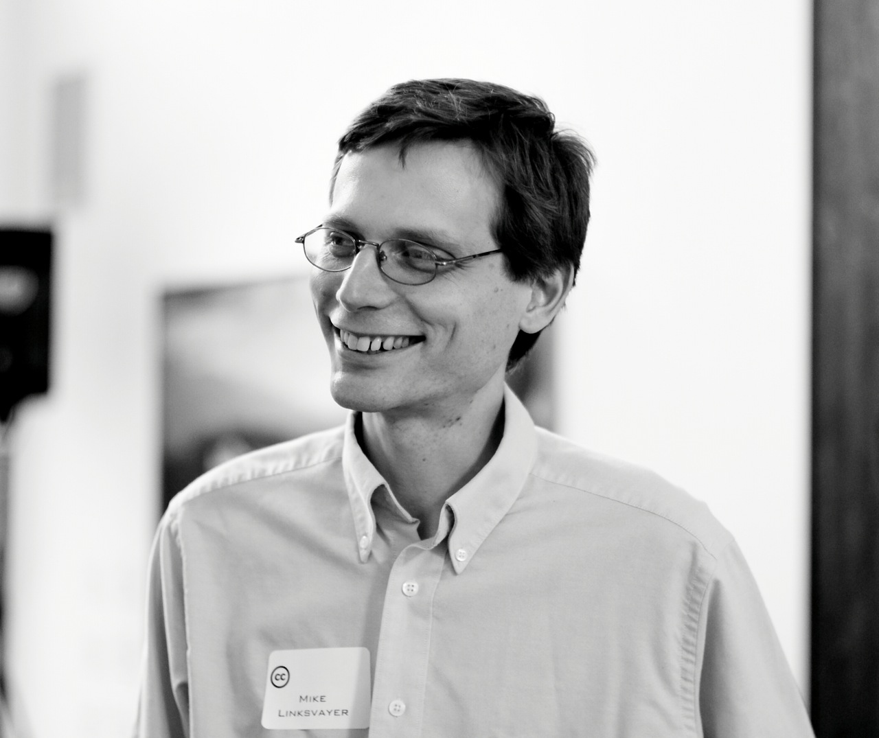 Mike Linksvayer, black and white